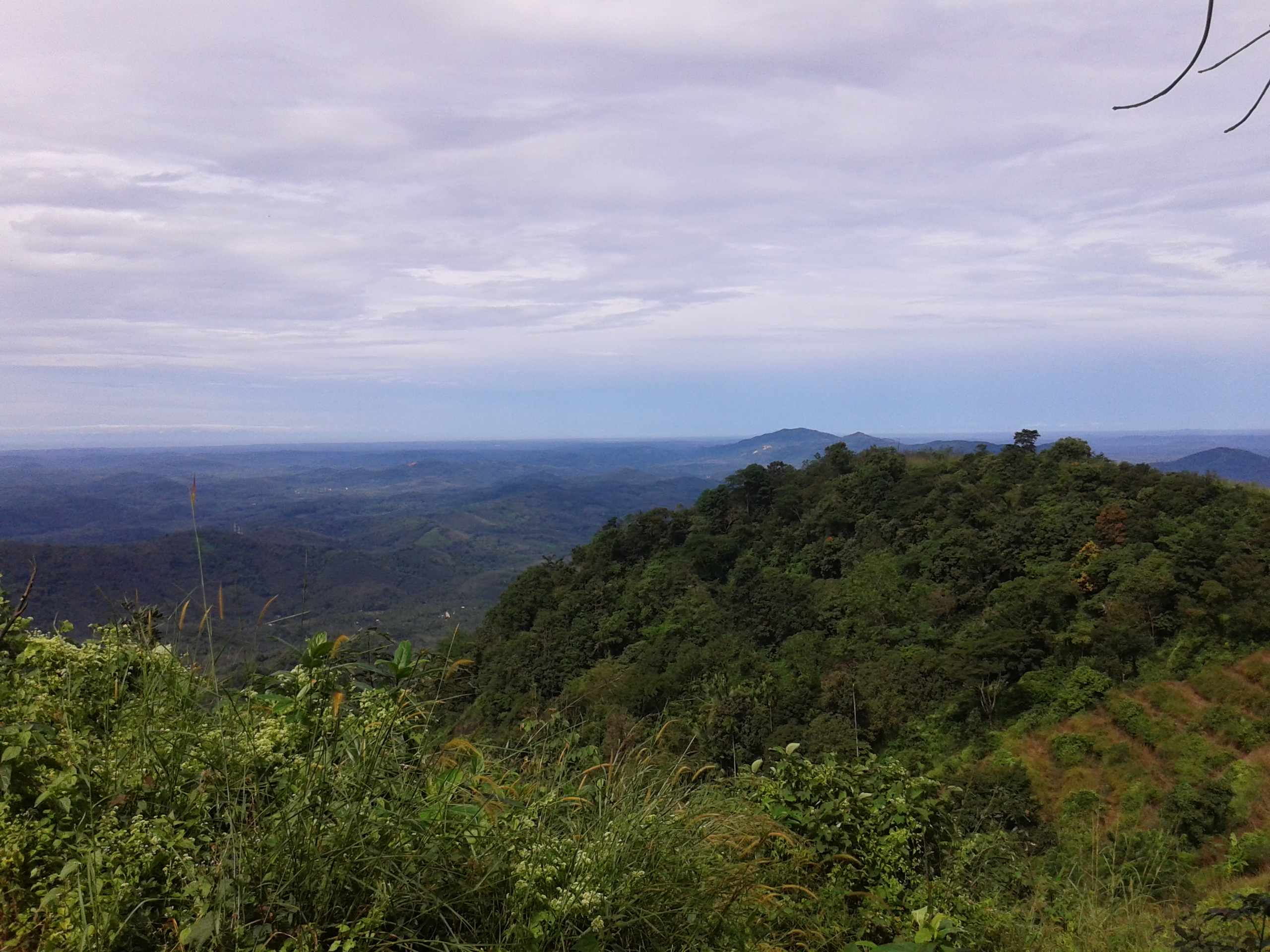 Elapeedika